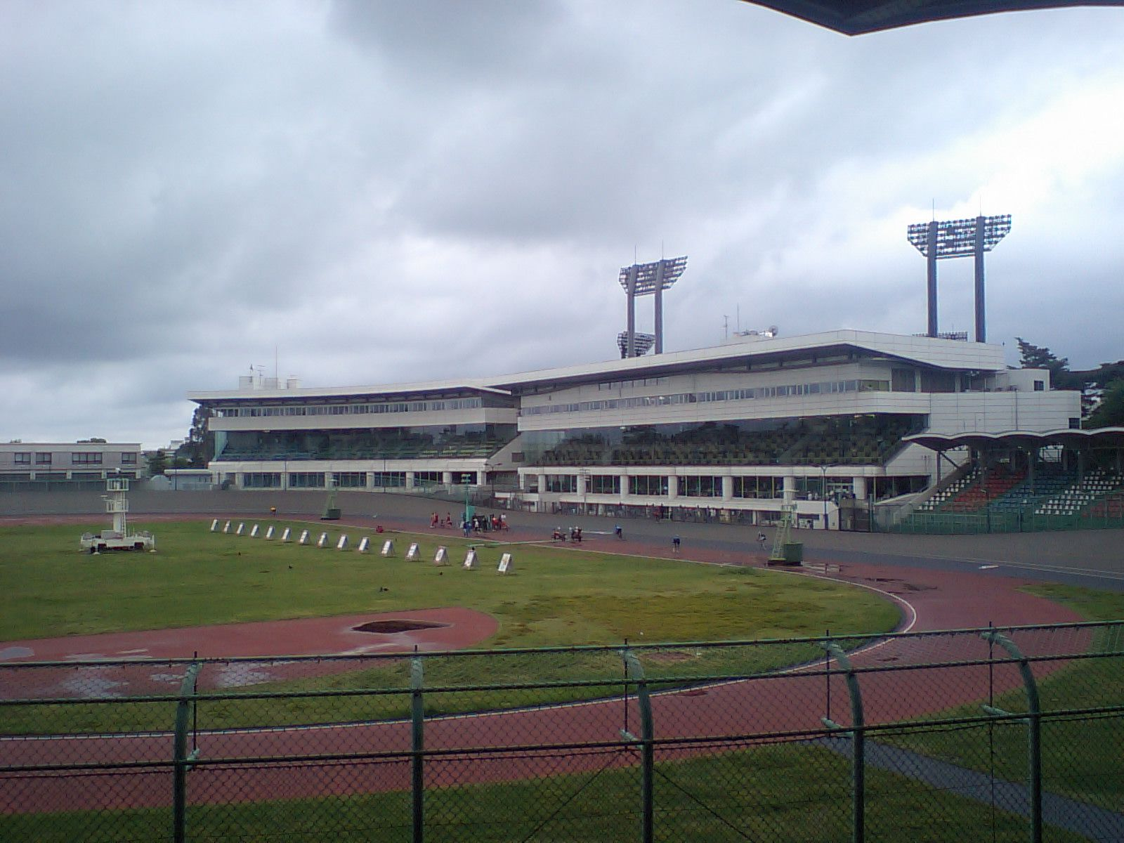 Omiya Keirin Velodrome, placed at Saitama city, Saitama Japan.